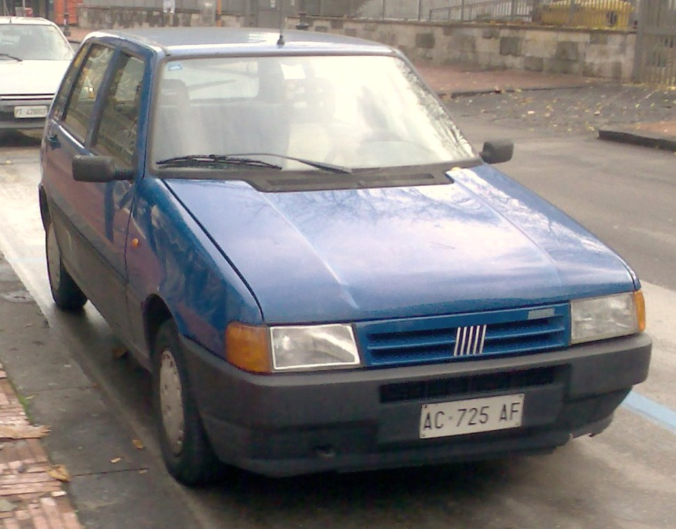 Fiat Uno MK2 blue